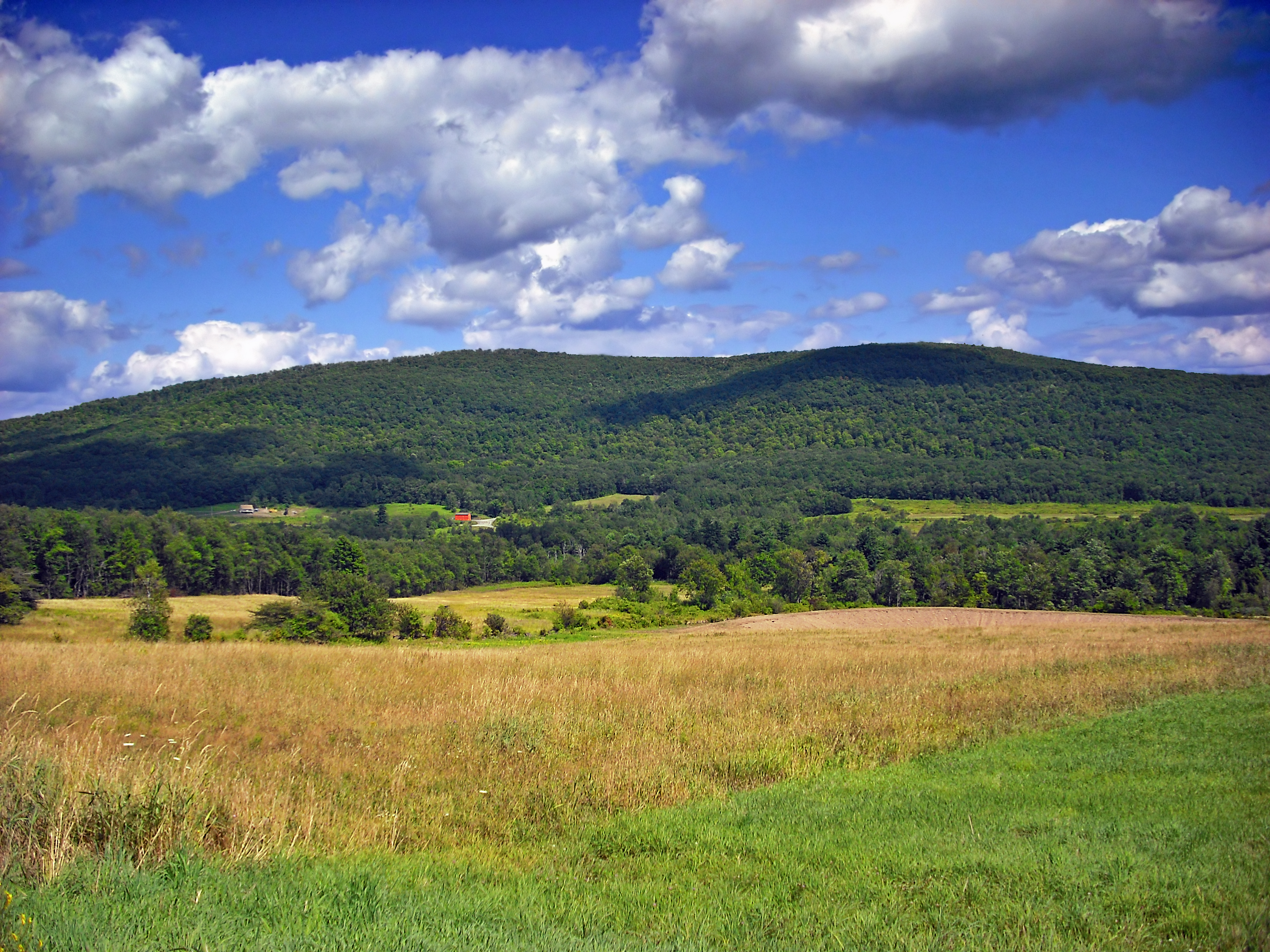 Mount Ararat, Preston Township, in Wayne County, Pennsylvania, USA. Its elevation is approximately 2656 feet (810 meters). This and nearby Elk Hill , in Susquehanna County, are among the highest peaks in eastern Pennsylvania. As viewed from PA Route 370, looking southeast.